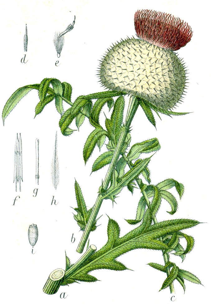 Cirsium eriophorum (L.) Scop., syn. Carduus eriophorus L. Original Caption Wollköpfige Kratzdistel, Carduus eriophorus